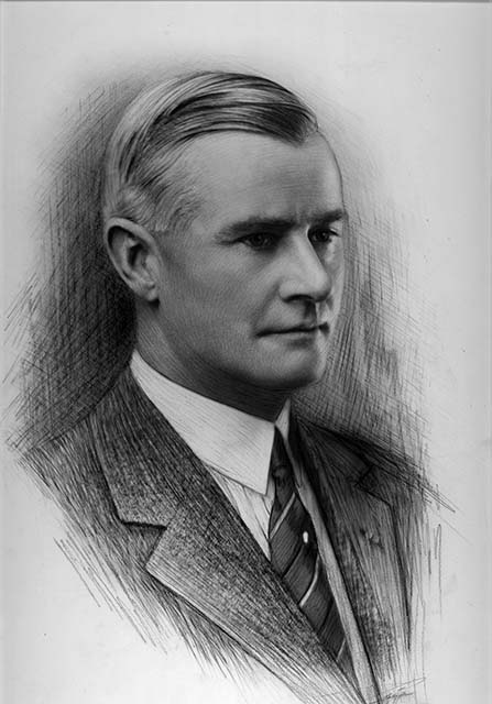 Richard C. Dillon, 8th Governor of New Mexico.